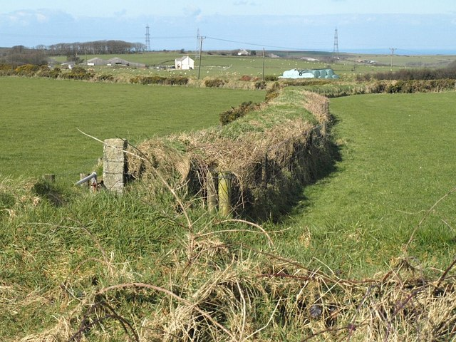 Field boundary, Trehane. Looking along the bank seen crossing 733143, demonstrating its width. At the far end runs the road between the A39 at Tich Barrow and Tintagel. The nearer farm is Hendra, in SX1388.